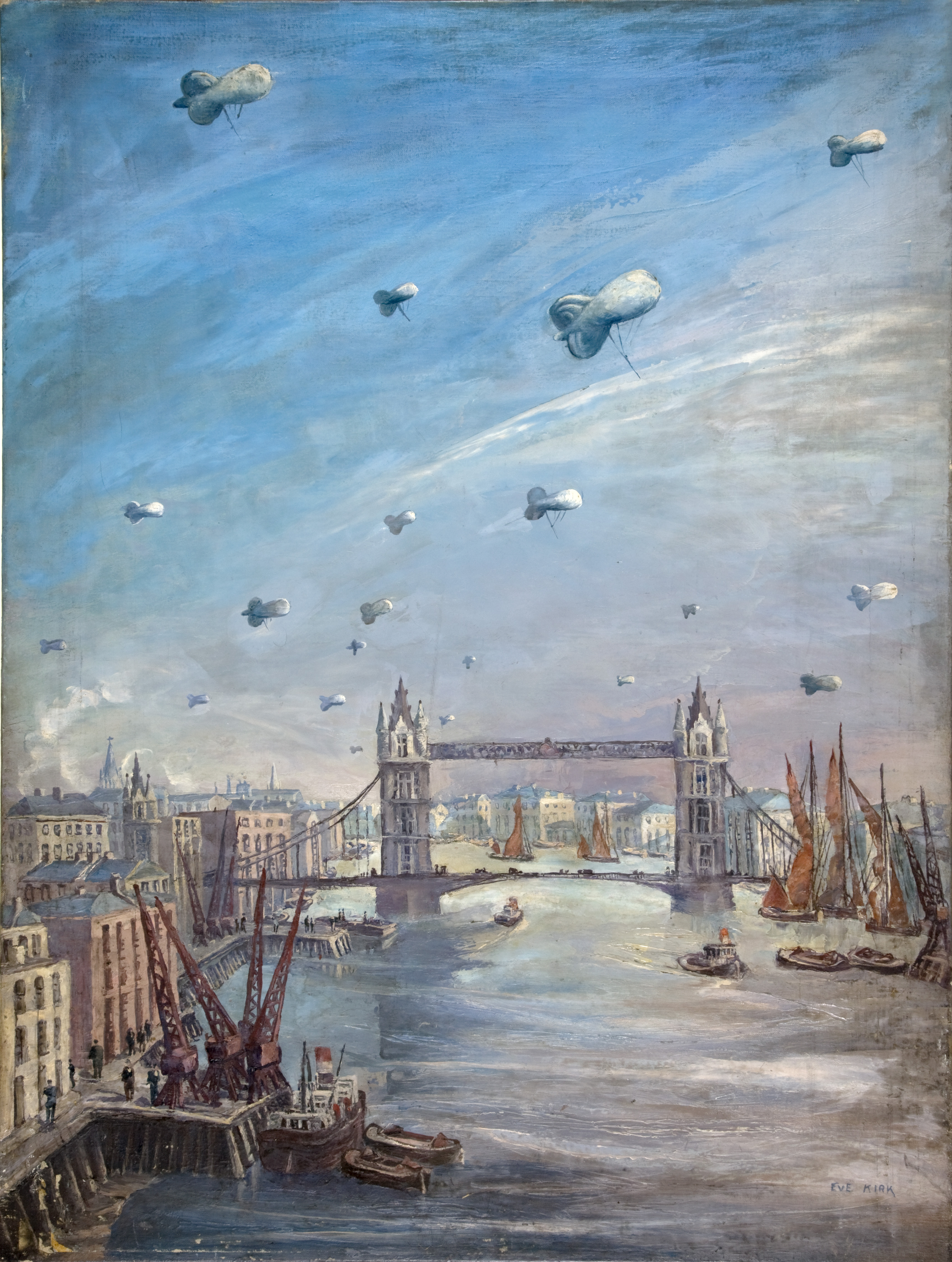 Barrage balloons over the Thames